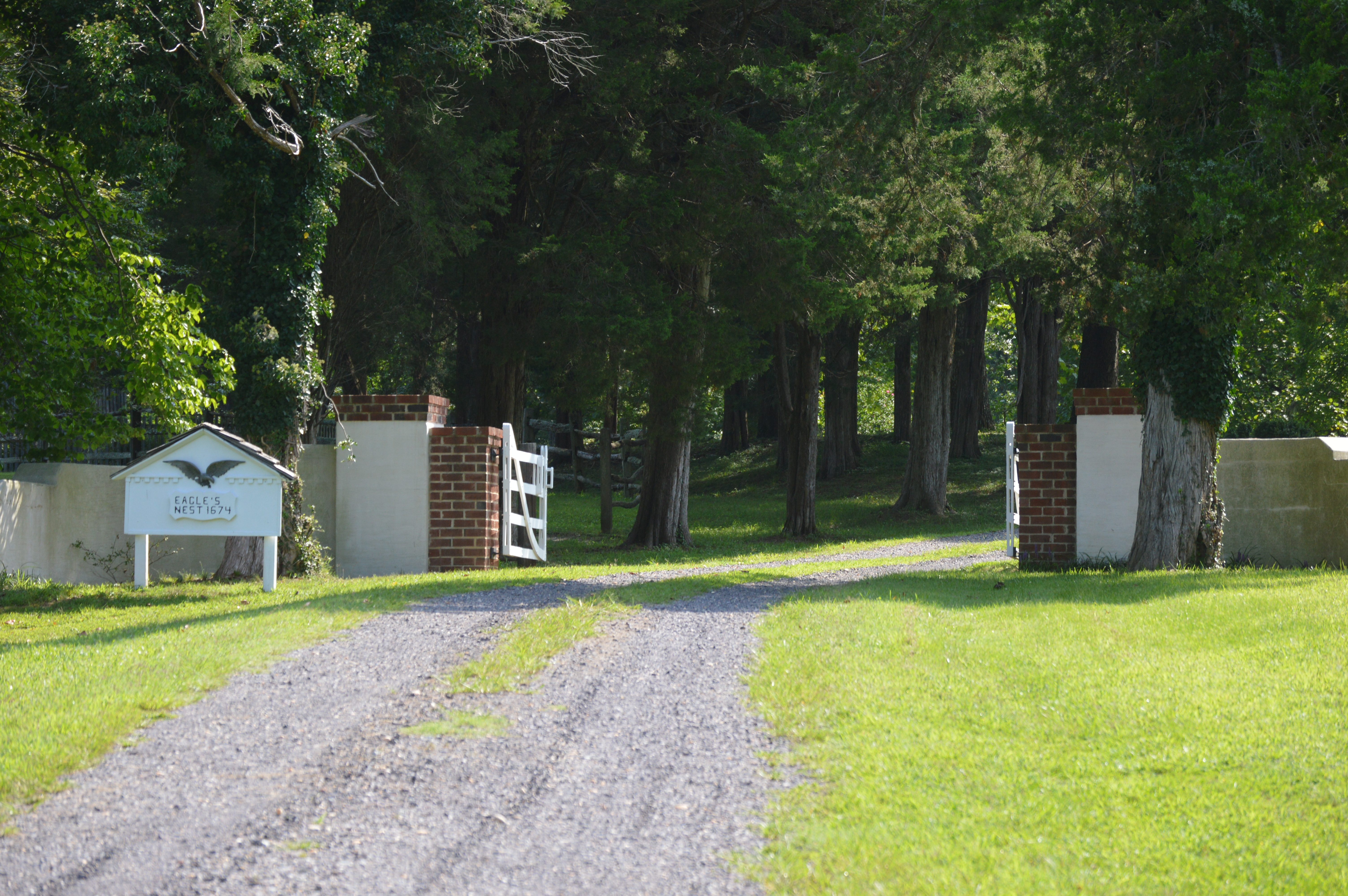 Entrance to the Eagle's Nest property, located on Eagles Nest Lane northwest of Ambar in King George County, Virginia, United States. "1674" is apparently the house address; the house dates from the middle of the 19th century. The estate is listed on the National Register of Historic Places.